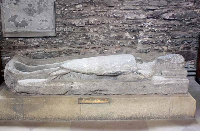 Dunblane Cathedral - Effigy